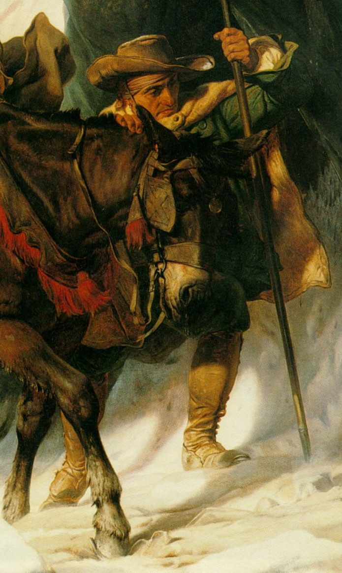 Cropping of Image:Delaroche - Bonaparte franchissant les Alpes.jpg .